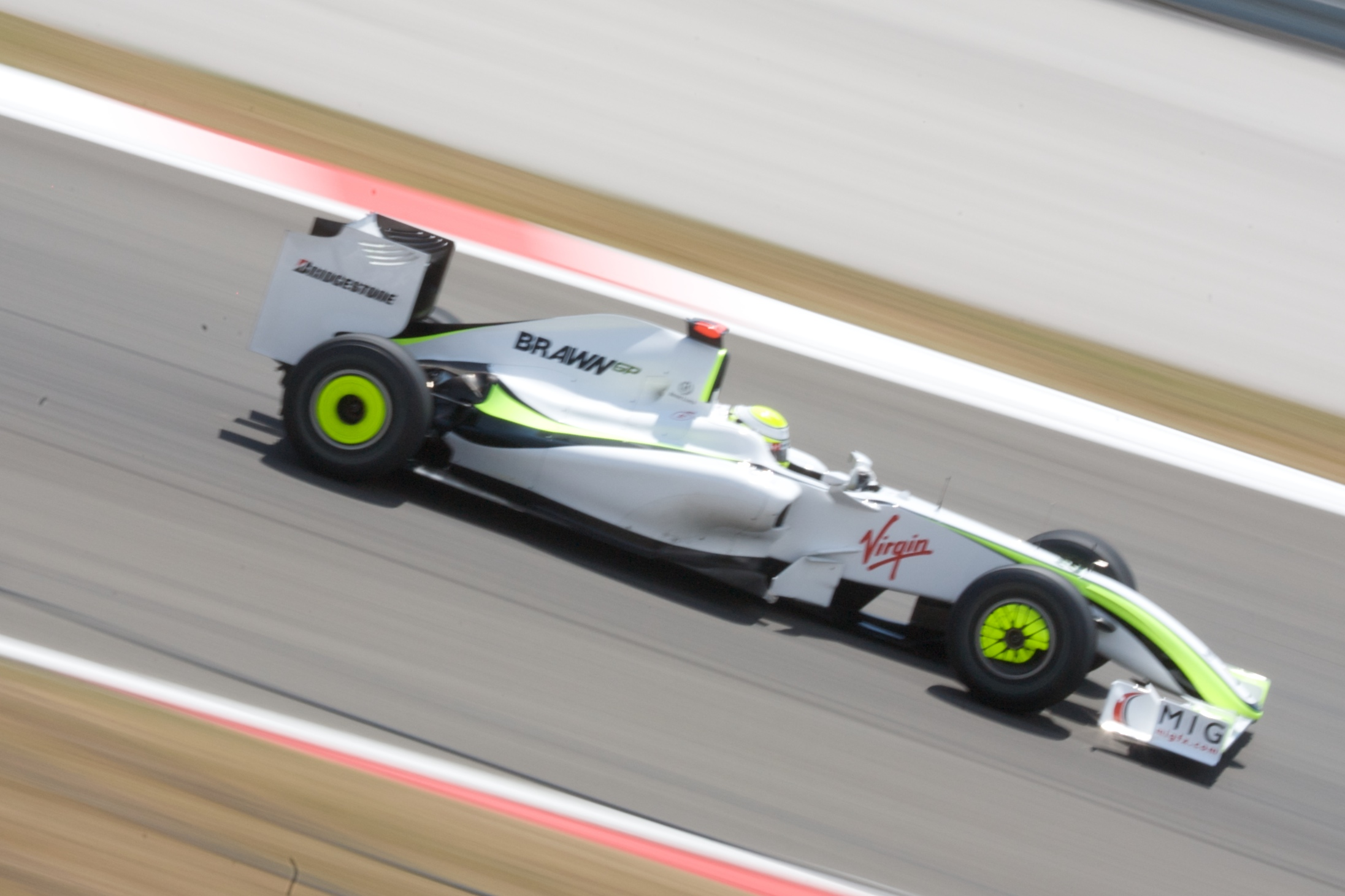 Jenson Button driving for Brawn GP at the 2009 Turkish Grand Prix.